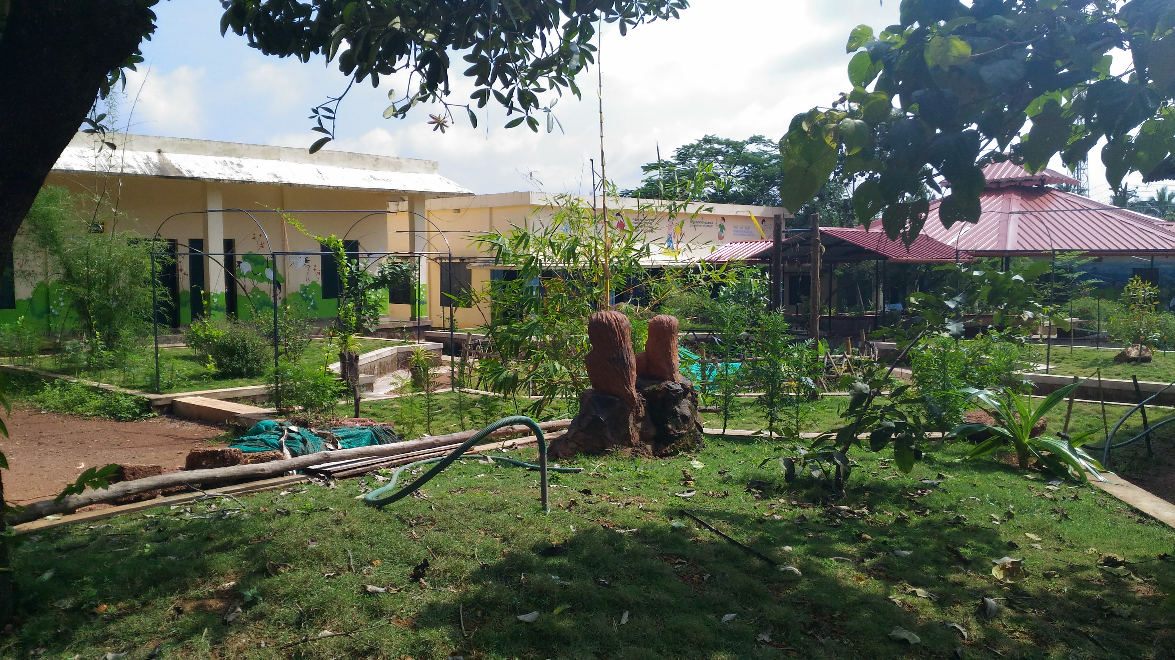 12056 gvhss ambalathara